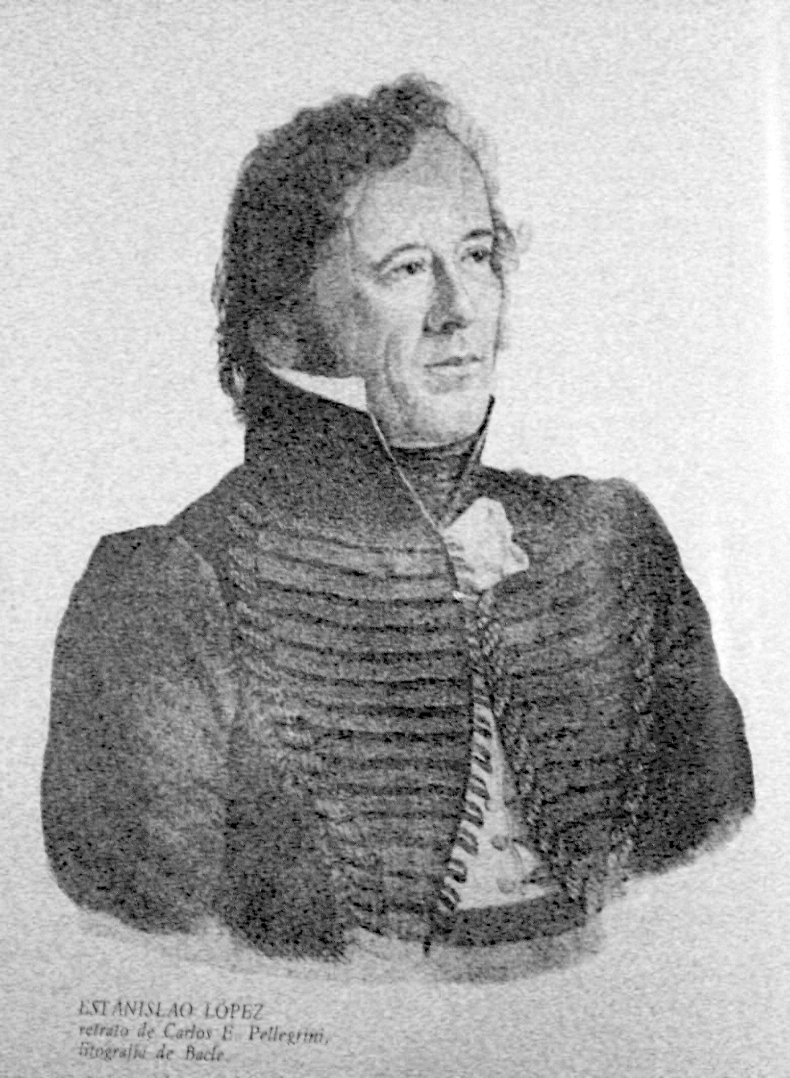 Portrait of Argentine "caudillo", Estanislao López, based on a drawing by Charles H. Pellegrini